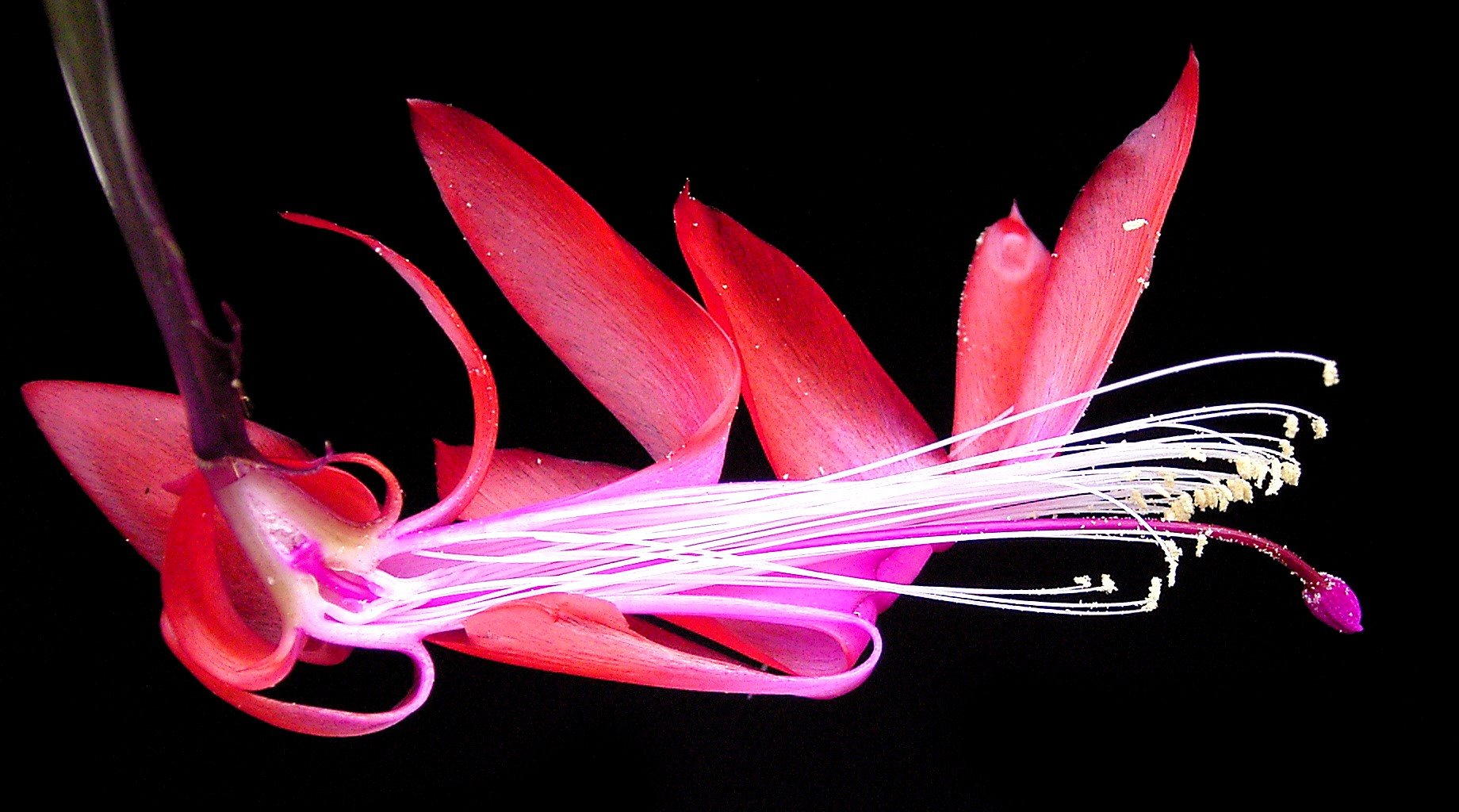 Flower of Schlumbergera, probably a cultivar in the Truncata Group rather than a species, cut in half to show the arrangement of the stamens, etc.